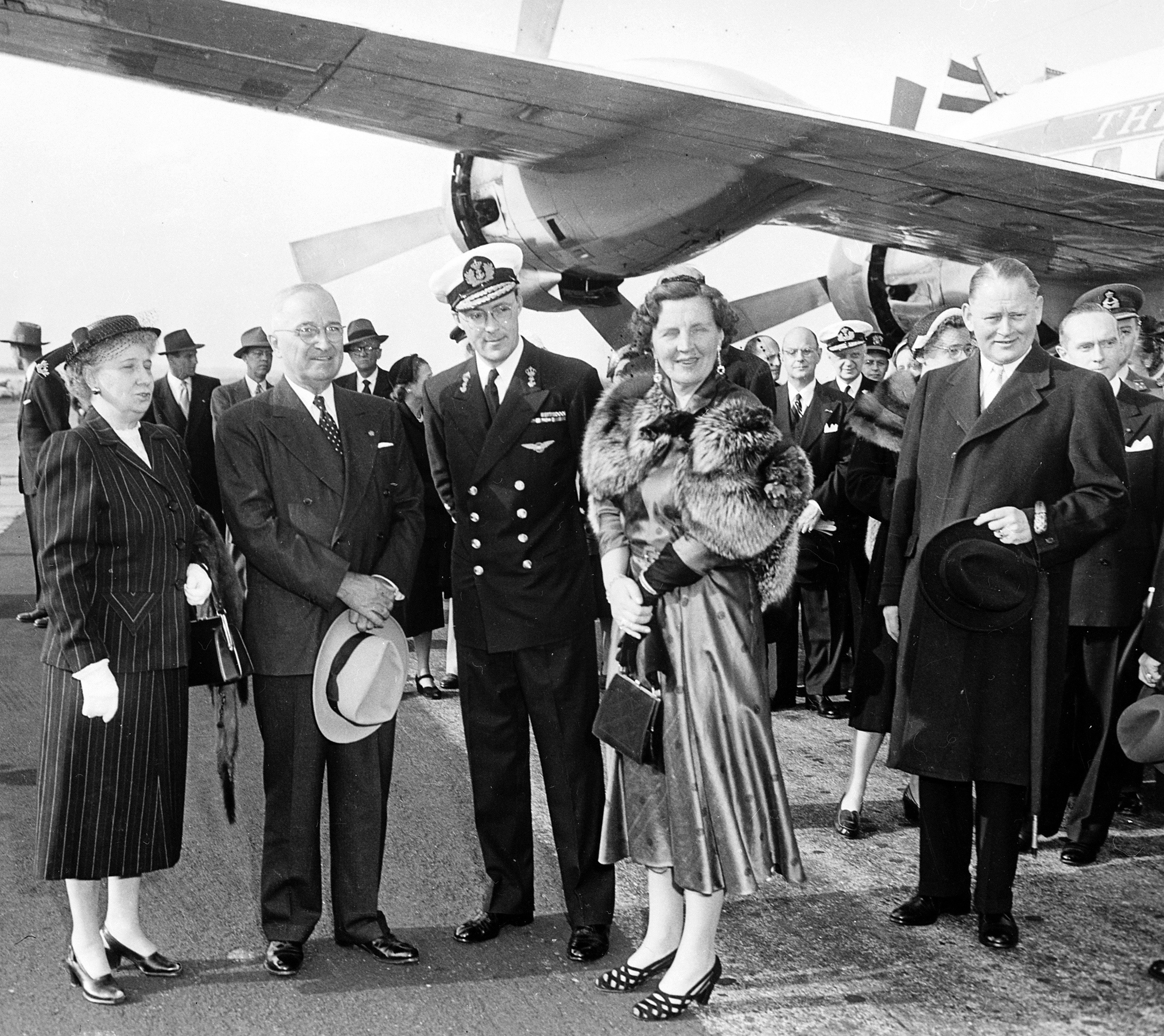 President and Mrs. Truman welcoming Queen Juliana of the Netherlands and her husband, Prince Bernhard, at Washington National Airport.